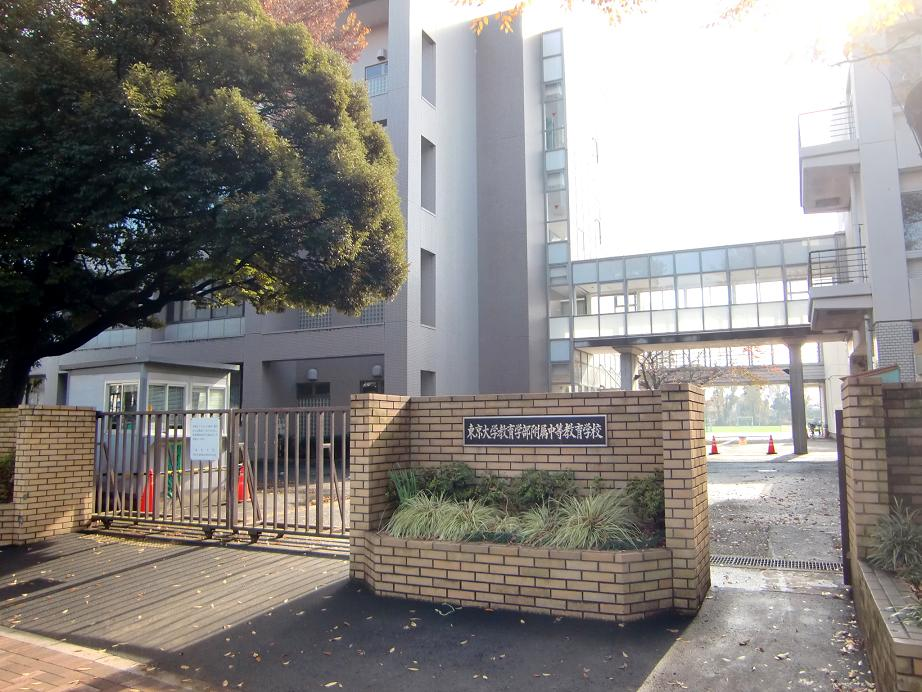 The entrance of the secondary school of the faculty of education, the University of Tokyo, Nakano, Tokyo Japan.